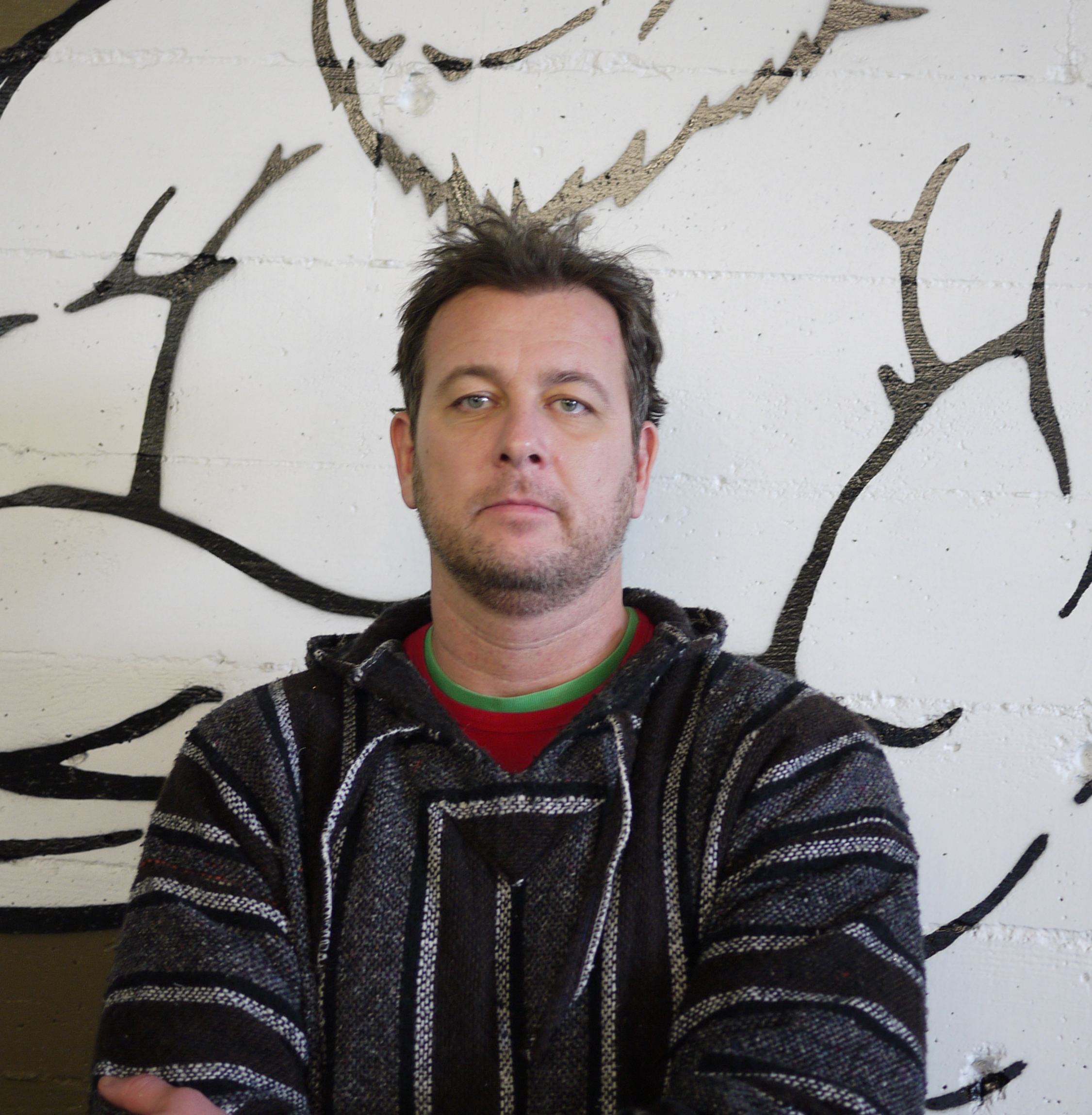 Matt Thornton, Straight Blast Gym founder and martial arts innovator and coach.